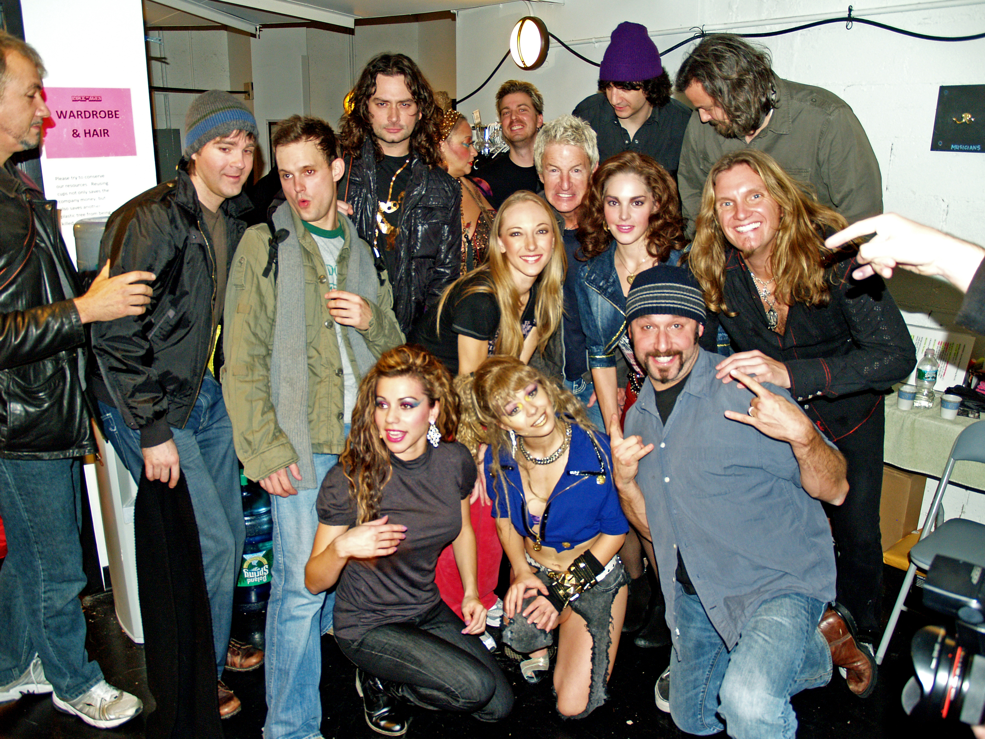 Constantine Maroulis, Kelli Barrett and the 2008 cast of off-Broadway musical Rock of Ages pose backstage with Kevin Cronin.